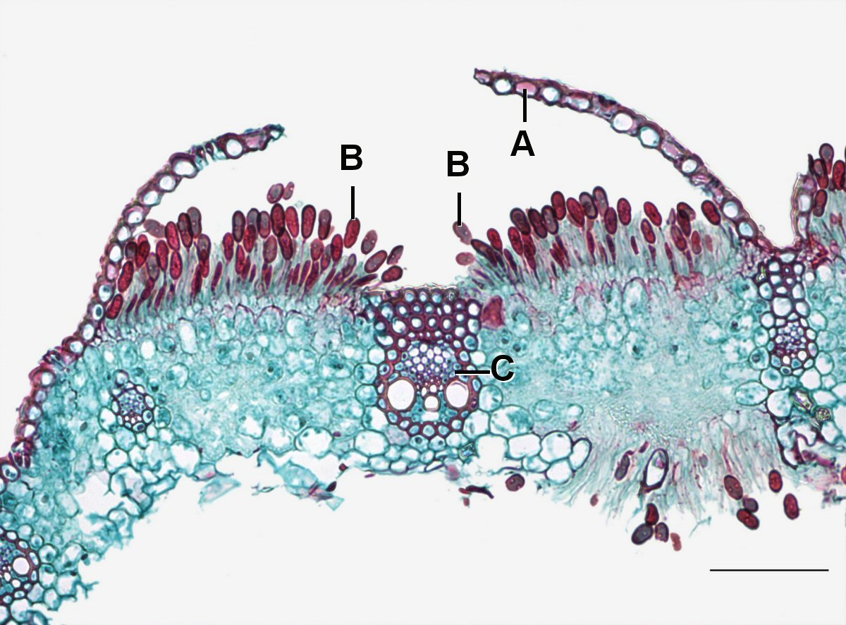 Light microscopy of Puccinia grammis showing the urediosporangium having broken through the stem wall to release its urediospores. A=Epithelium, B=Urediospores, C=Monocot vascular bundle. Scale bar = 0.1mm.